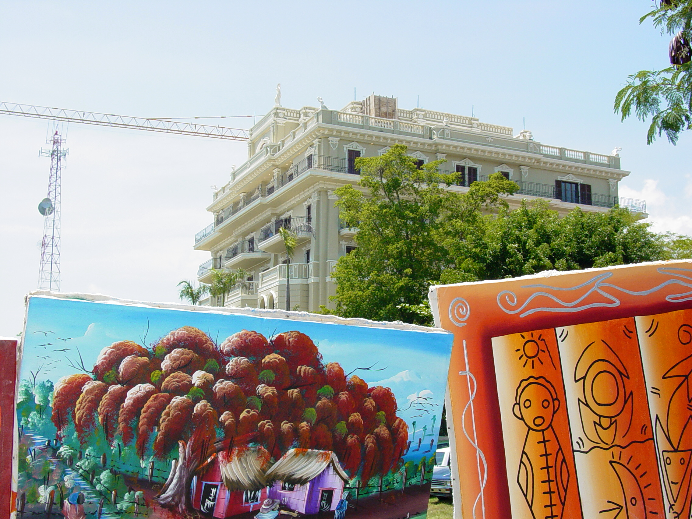 Building with Crane and Street Paintings - Boca Chica - Dominican Republic